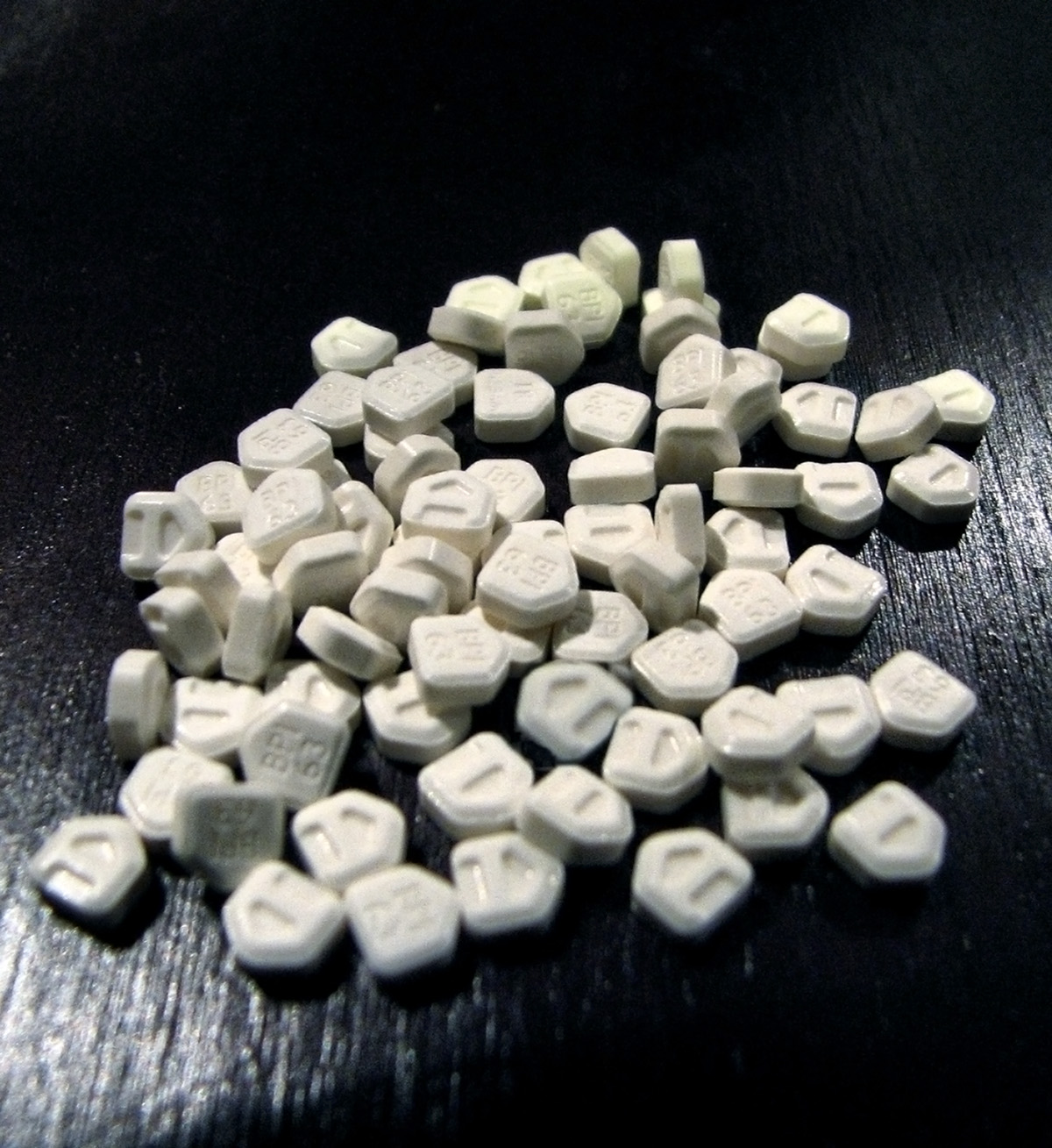 Close-up of 0.5mg tablets of the brand name benzodiazepine drug, Ativan. Generic name is Lorazepam.